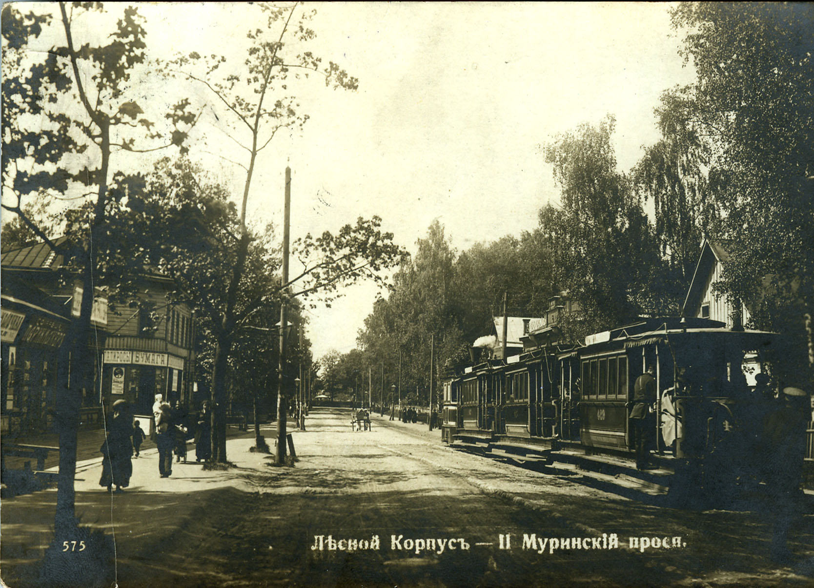 Steam tram at 2nd Murinsky prospect in Saint Petersburg